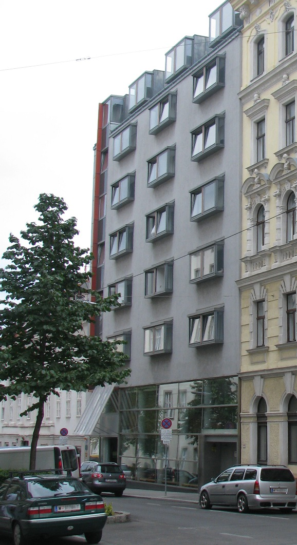 Hotel Korotan, Albertgasse 48, A-1080 Vienna, home of Slovenian Culture and Information Centre (SKICA).